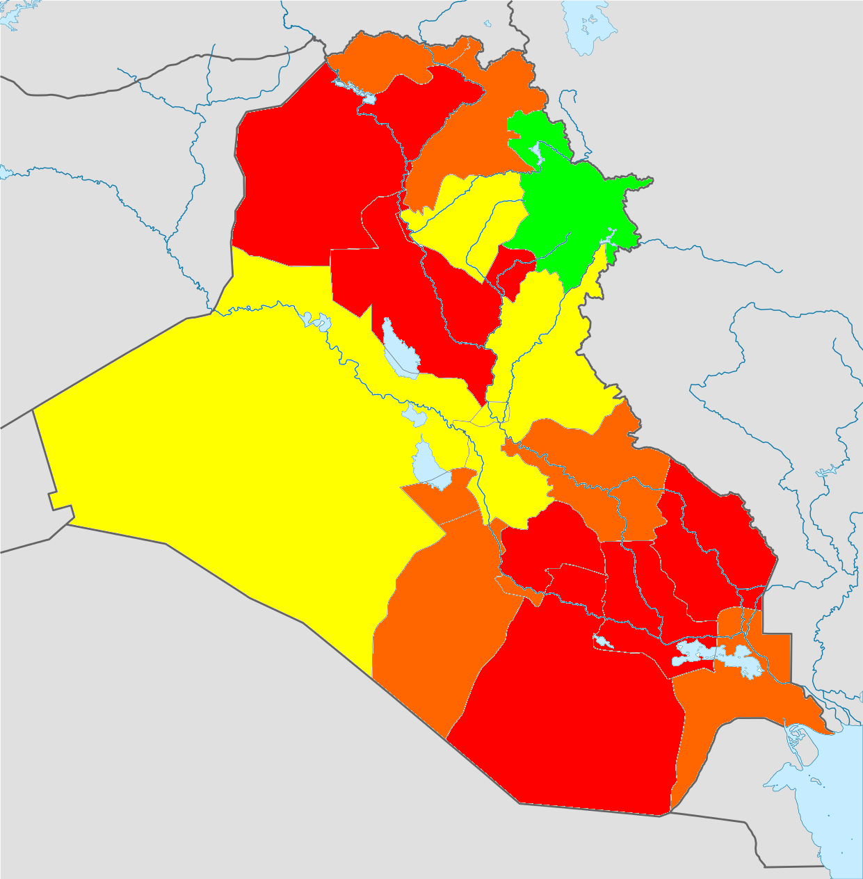 Total fertility rate by region in Iraq(2006). Data is from Multiple Indicator Cluster Survey 2006 - unicef statistics